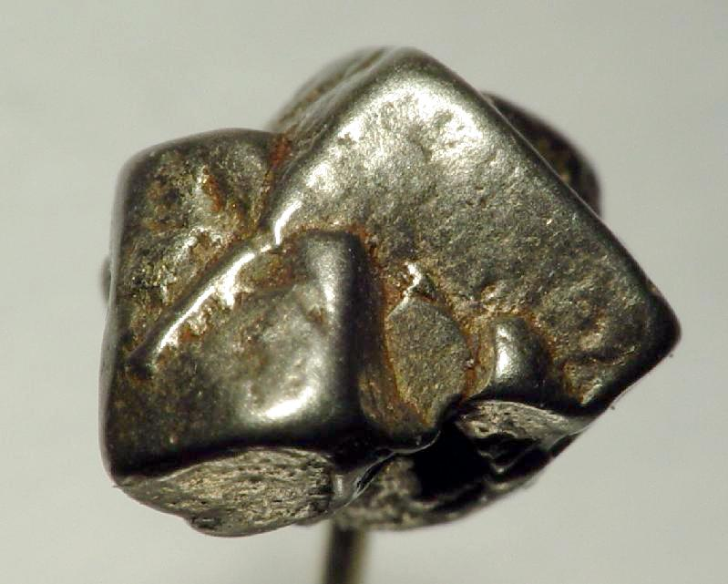 Platinum Locality: Talnakh Cu-Ni Deposit, Noril'sk, Putoran Plateau, Taimyr Peninsula, Taymyrskiy Autonomous Okrug, Eastern-Siberian Region, Russia (Locality at ) Size: thumbnail, .8 x .7 x .5 cm Platinum This is a good reference specimen of CRYSTALLIZED cubic Platinum, very rare for the species. When cubes are found, they are usually malformed. Not these! This is a sharp, well-formed cube of Platinum (to 5 mm on edge) that even has several penetration twins emerging from it. .8 x .7 x .5 cm